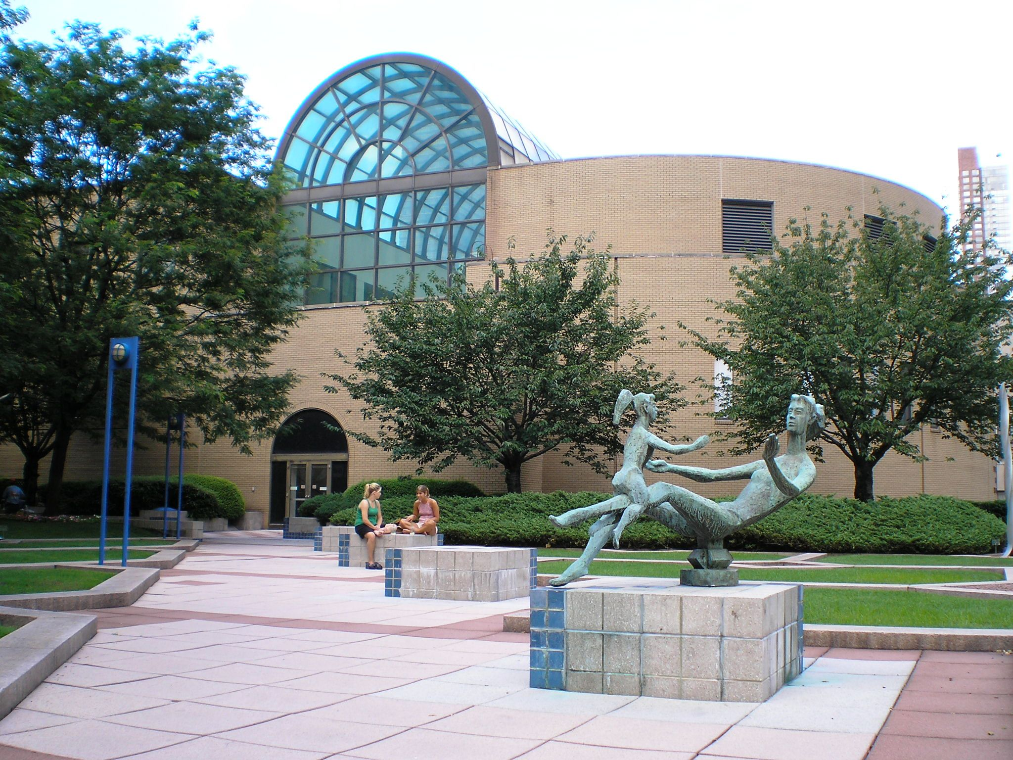 Fordham Law School atrium from the plaza between the law school and the graduate school buildings. New York City.